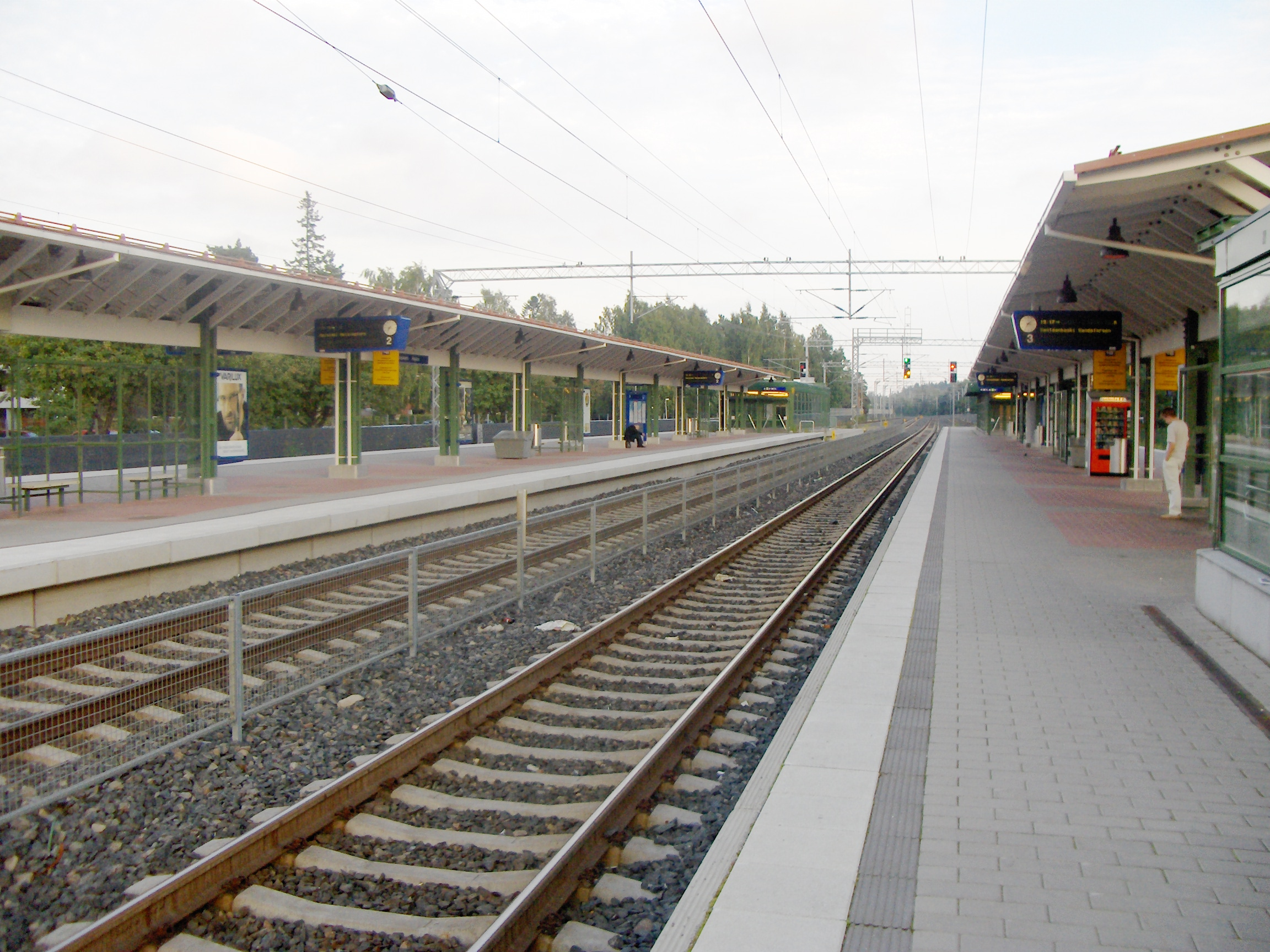 Huopalahti railway station, Helsinki, Finland